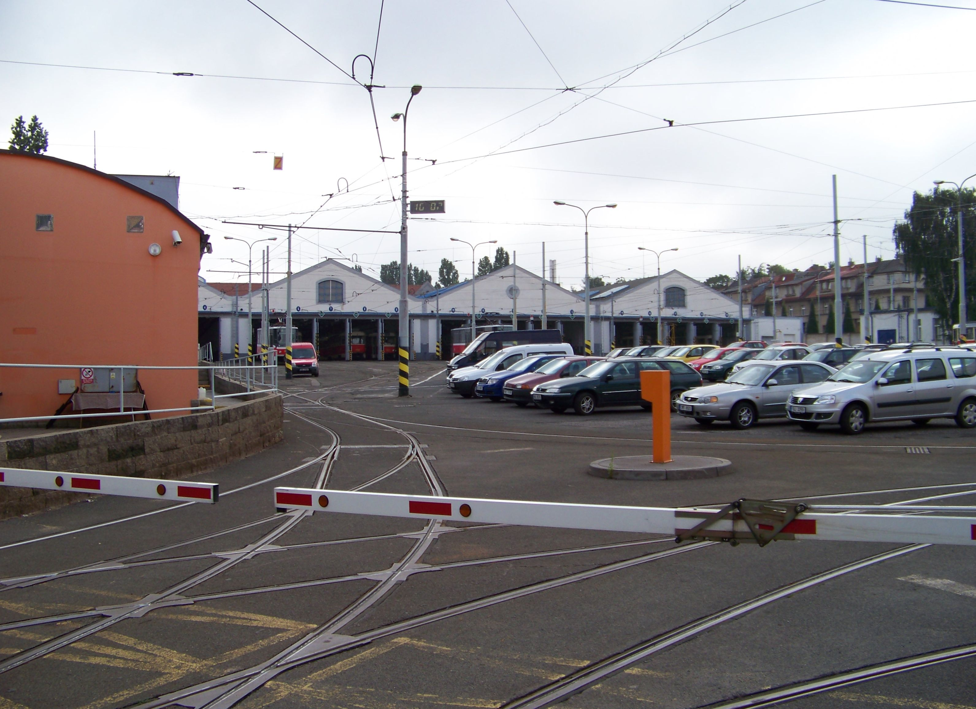 Prague-Žižkov, the Czech Republic. Žižkov Tram Depot. - OpenStreetMap(Info)